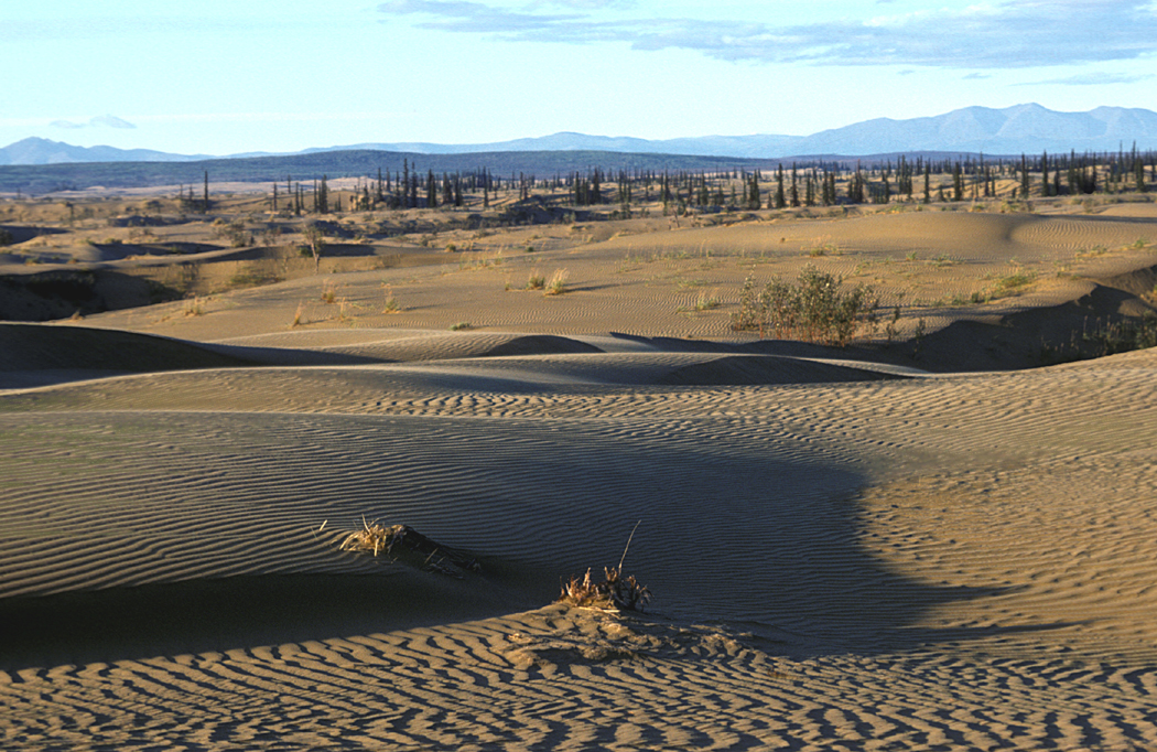 Nogahabara sand dunes, Koyukuk National Wildlife Refuge